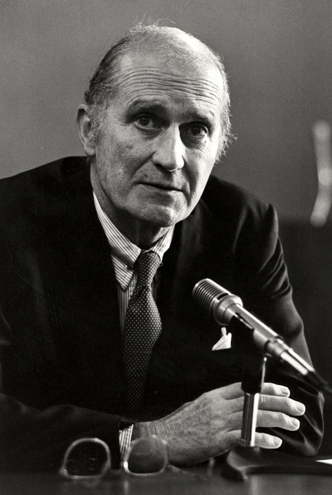 Howard Malcolm Baldridge, U.S. Secretary of Commerce, with microphone